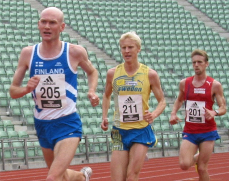 Janne Holmén, Oscar Käck and Øystein Sylta at the Nordic 10,000 m Challenge at Bislett stadion, Oslo, Norway.